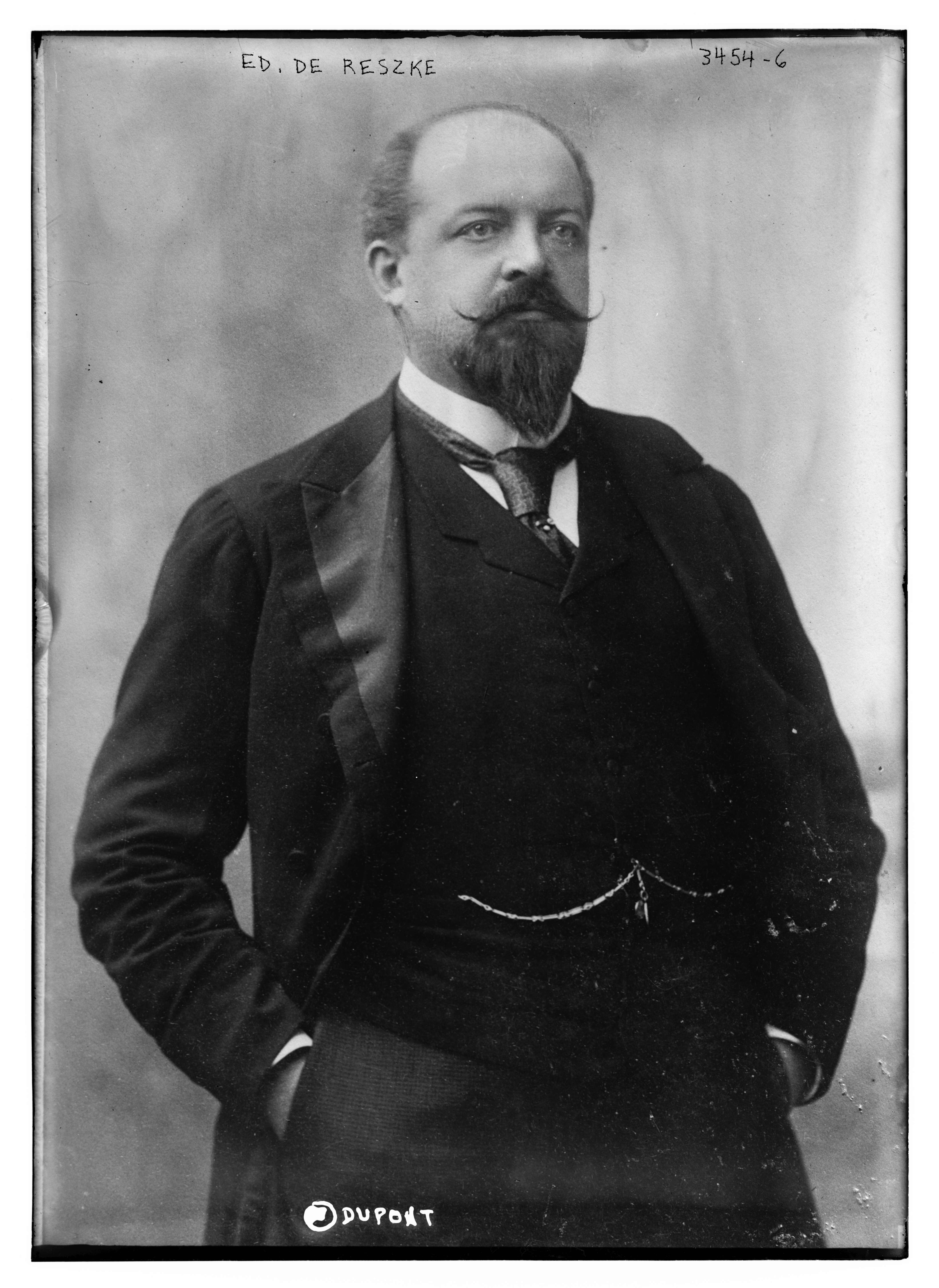 Édouard de Reszke circa 1915. Ed. De Reszke [between ca. 1910 and ca. 1915] 1 negative : glass ; 5 x 7 in. or smaller. Notes: Title from unverified data provided by the Bain News Service on the negatives or caption cards. Forms part of: George Grantham Bain Collection (Library of Congress). Format: Glass negatives. Repository: Library of Congress, Prints and Photographs Division, Washington, D.C. 20540 USA, General information about the Bain Collection is available at Higher resolution image is available (Persistent URL): Call Number: LC-B2- 3454-6 Bain News Service,, publisher.